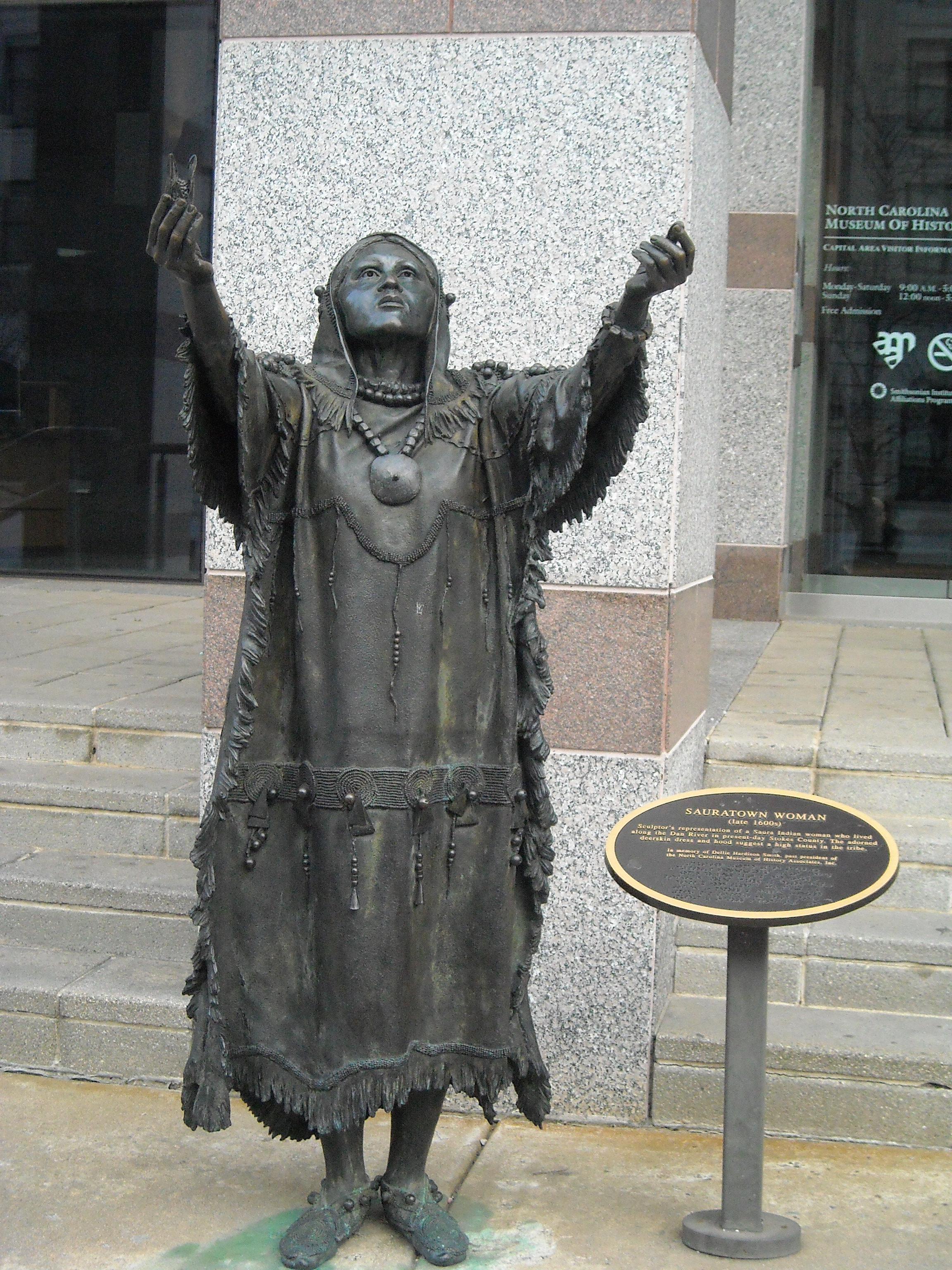 NC Museum of History, Raleigh, NC